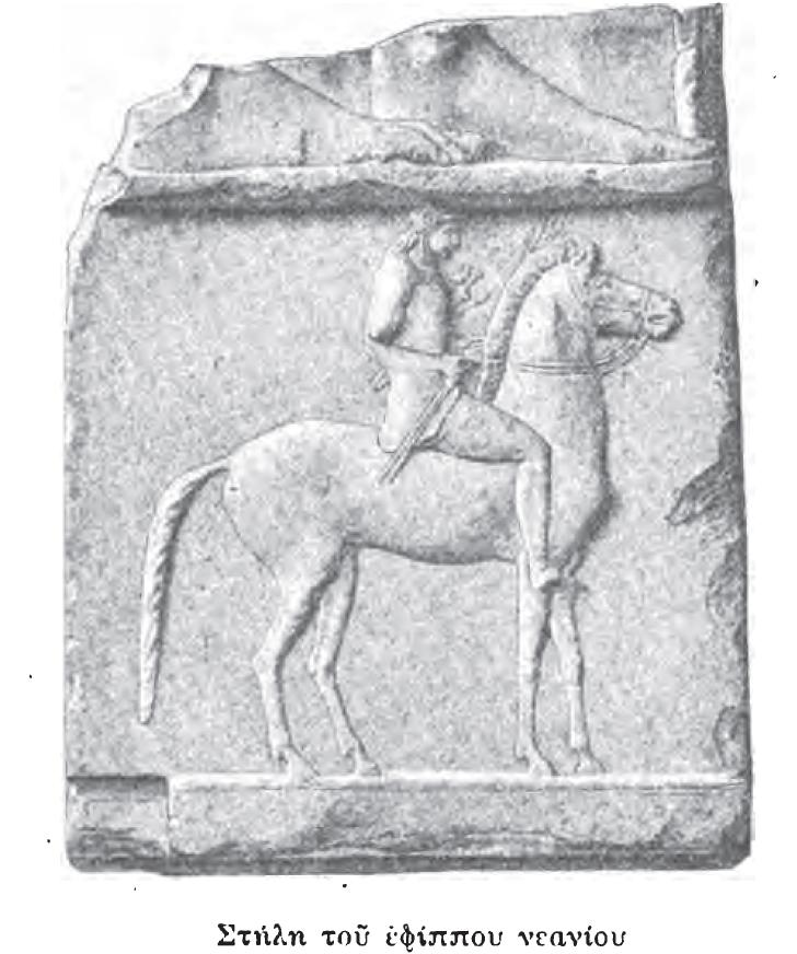 Hestia (1876) Author: Diomedes, Paulos Subject: Greek literature, Modern; Greek periodicals Publisher: [Athēnēsi : s.n. Year: 1894 Possible copyright status: NOT_IN_COPYRIGHT Language: Greek Digitizing sponsor: Google Book from the collections of: Harvard University Collection: americana]